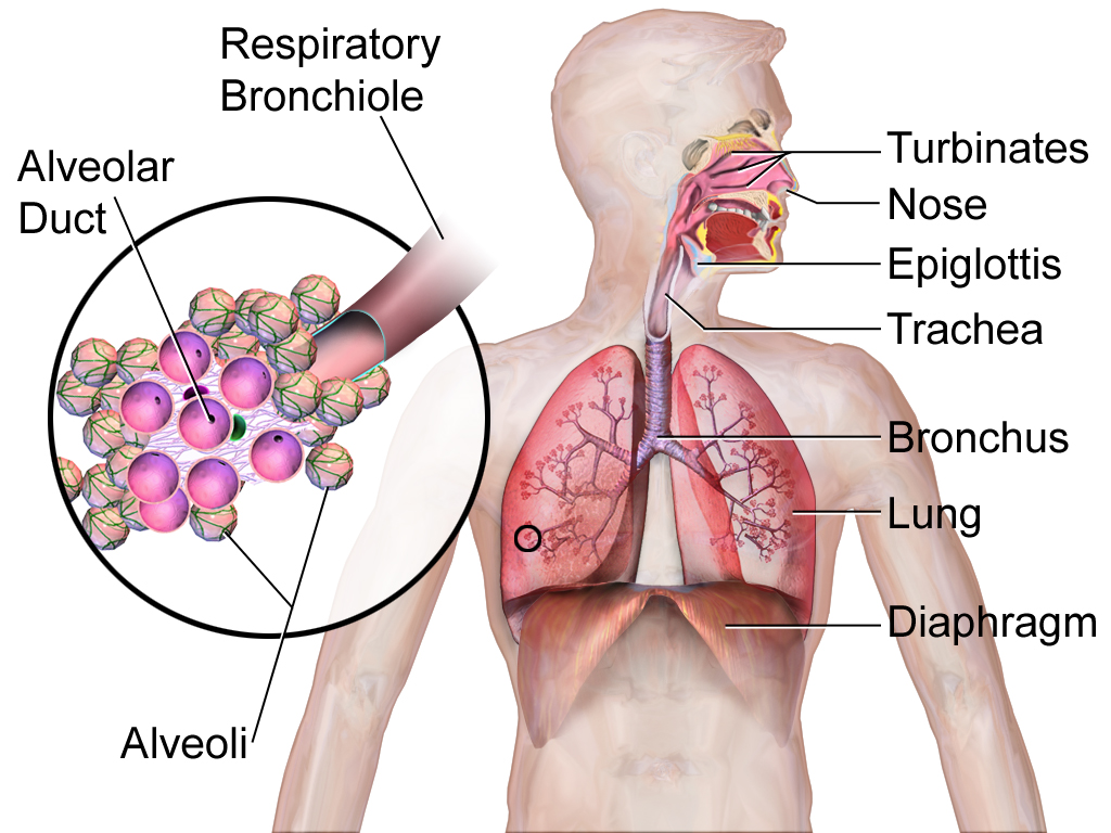 An illustration depicting the respiratory system.